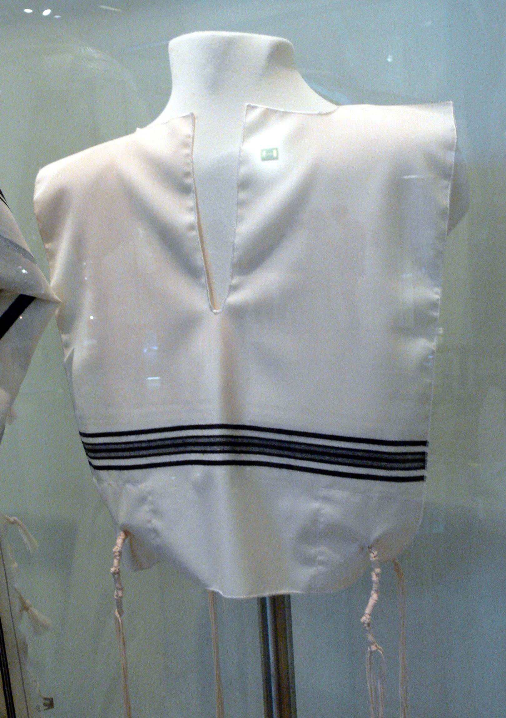 Jewish Museum ( Berlin ). Jewish prayer garnment.